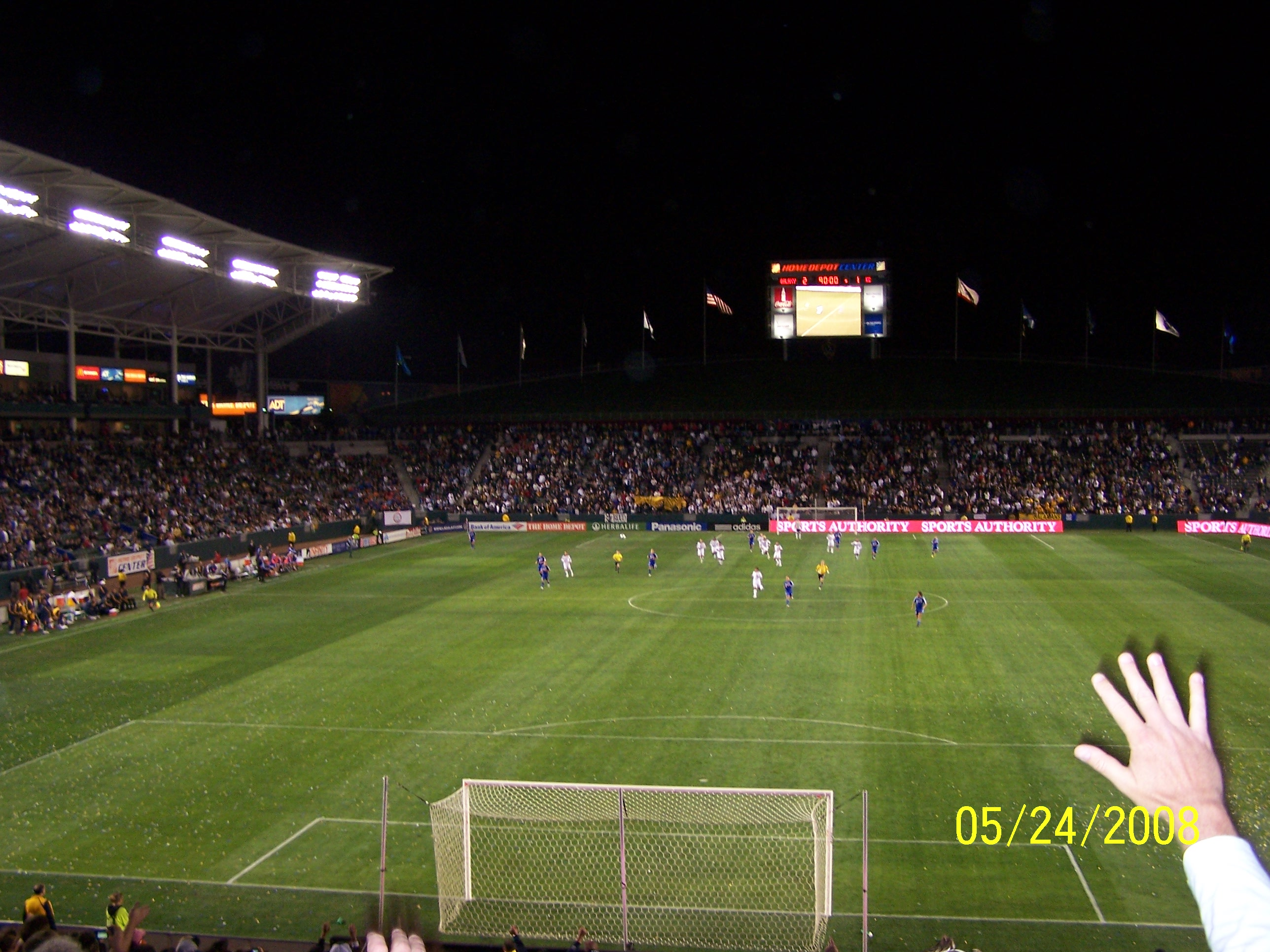 David Beckham's 70-yard goal.